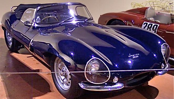 Cropped version of File:Jaguar XKSS 1957